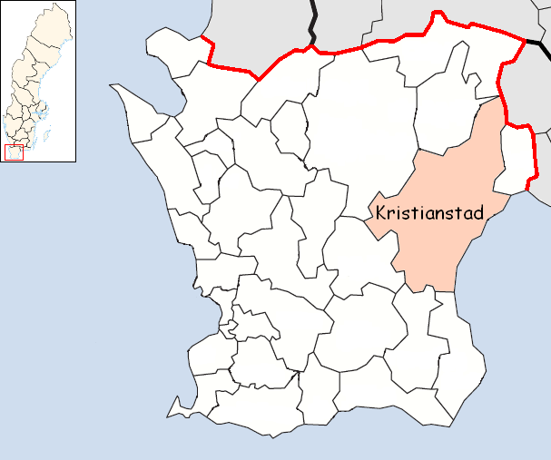 Kristianstad Municipality in Scania, Sweden Designed by me. Mere outlines are a PD source from